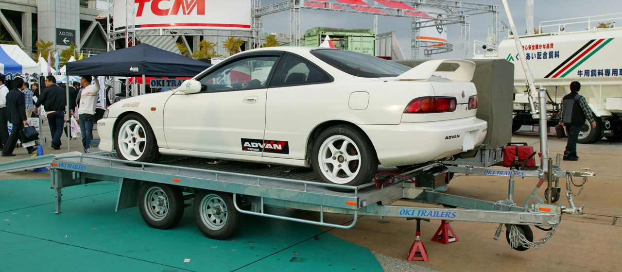 Light trailer